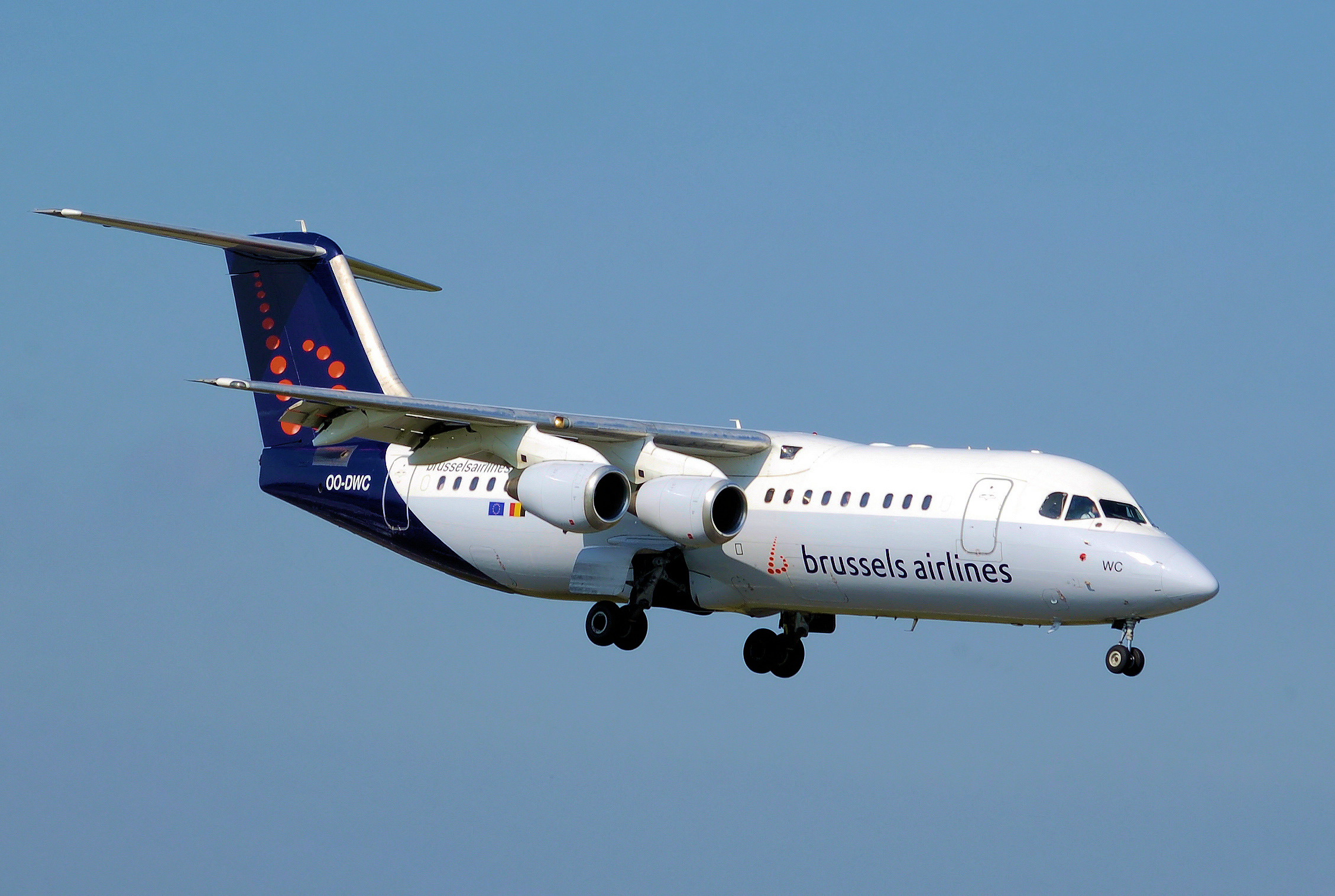 Brussels Airlines BAe Avro RJ-100 (OO-DWC) lands at Bristol International Airport, England.